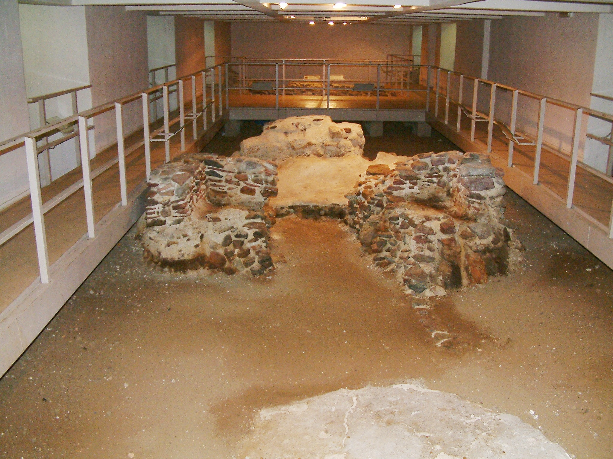 Underground of Poznań Archcathedral Basilica of St. Peter and St. Paul, remanents of preromanesque cathedral